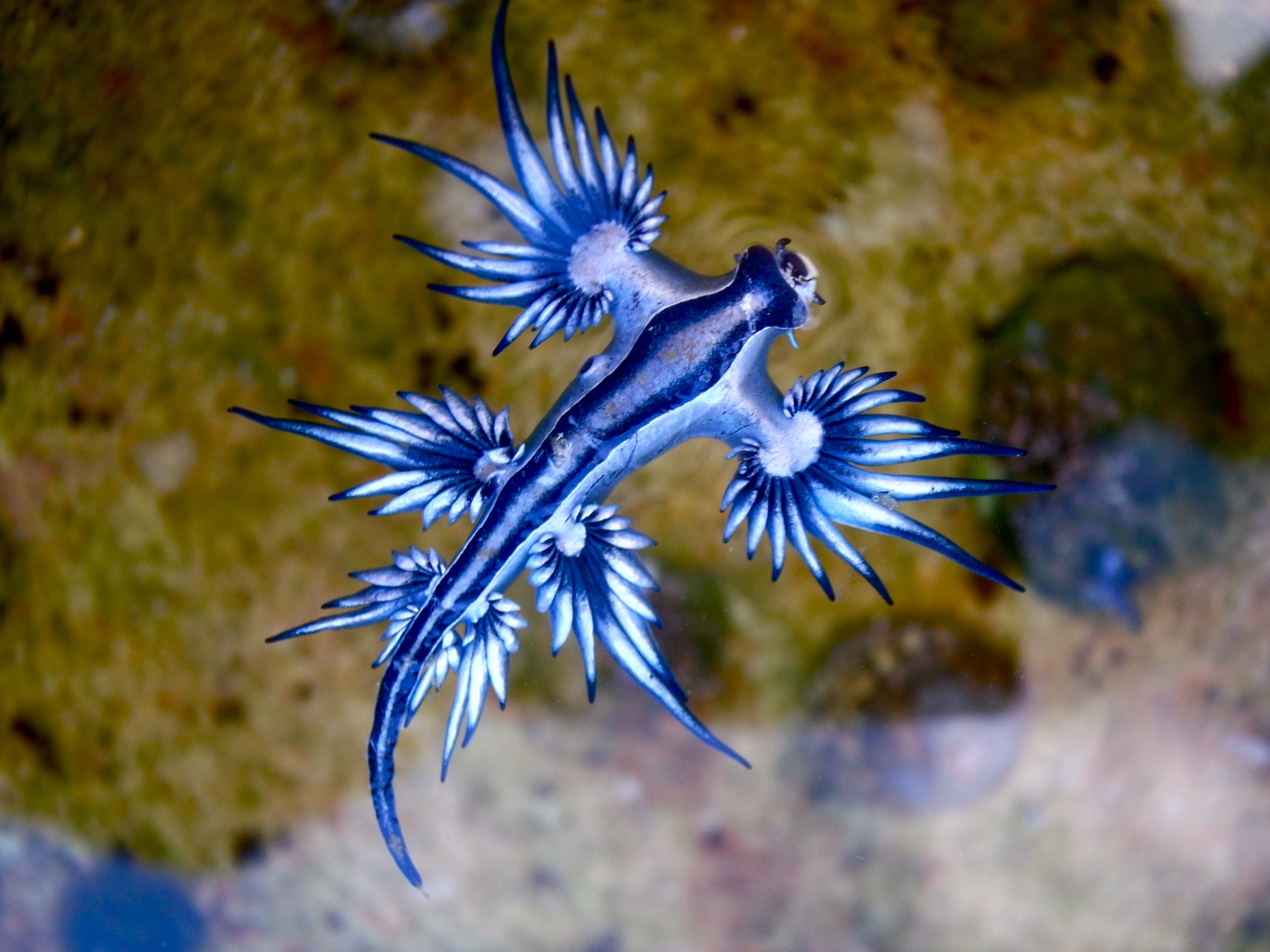 Also known as Sea Swallow, Blue Glaucus, Blue Sea Slug, Blue Ocean Slug and Lizard Nudibranch. Washed ashore at Bronte Beach, Sydney, NSW. Diet: Bluebottle (physalia physalis) Speciality: Stores stinging nematocysts from the bluebottle within its own tissues, which is additional protection from predation Discovered: 1777, Forster.